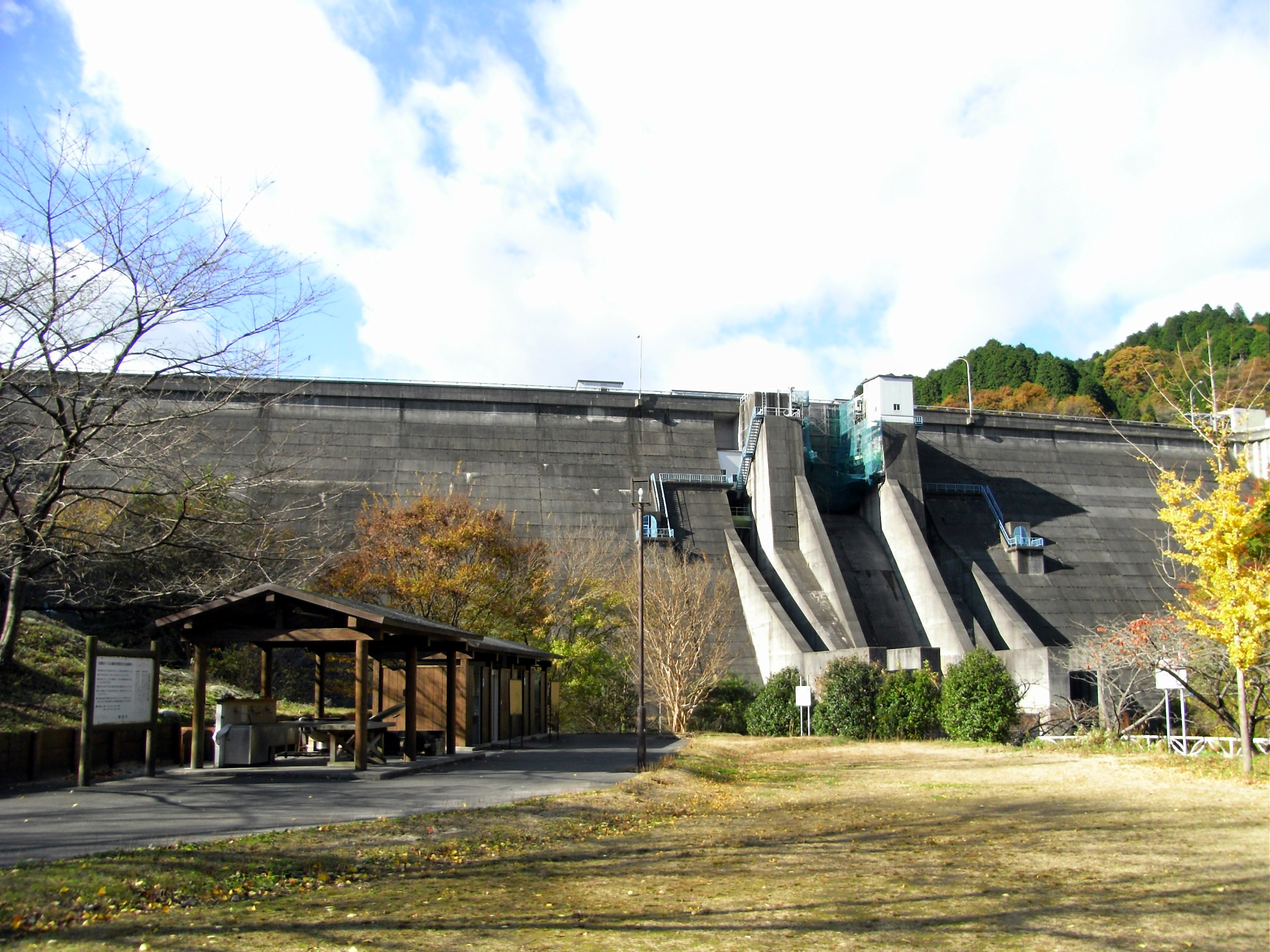 Hananuki Dam(Hananukigawa river/Ibaraki Pref./Japan)